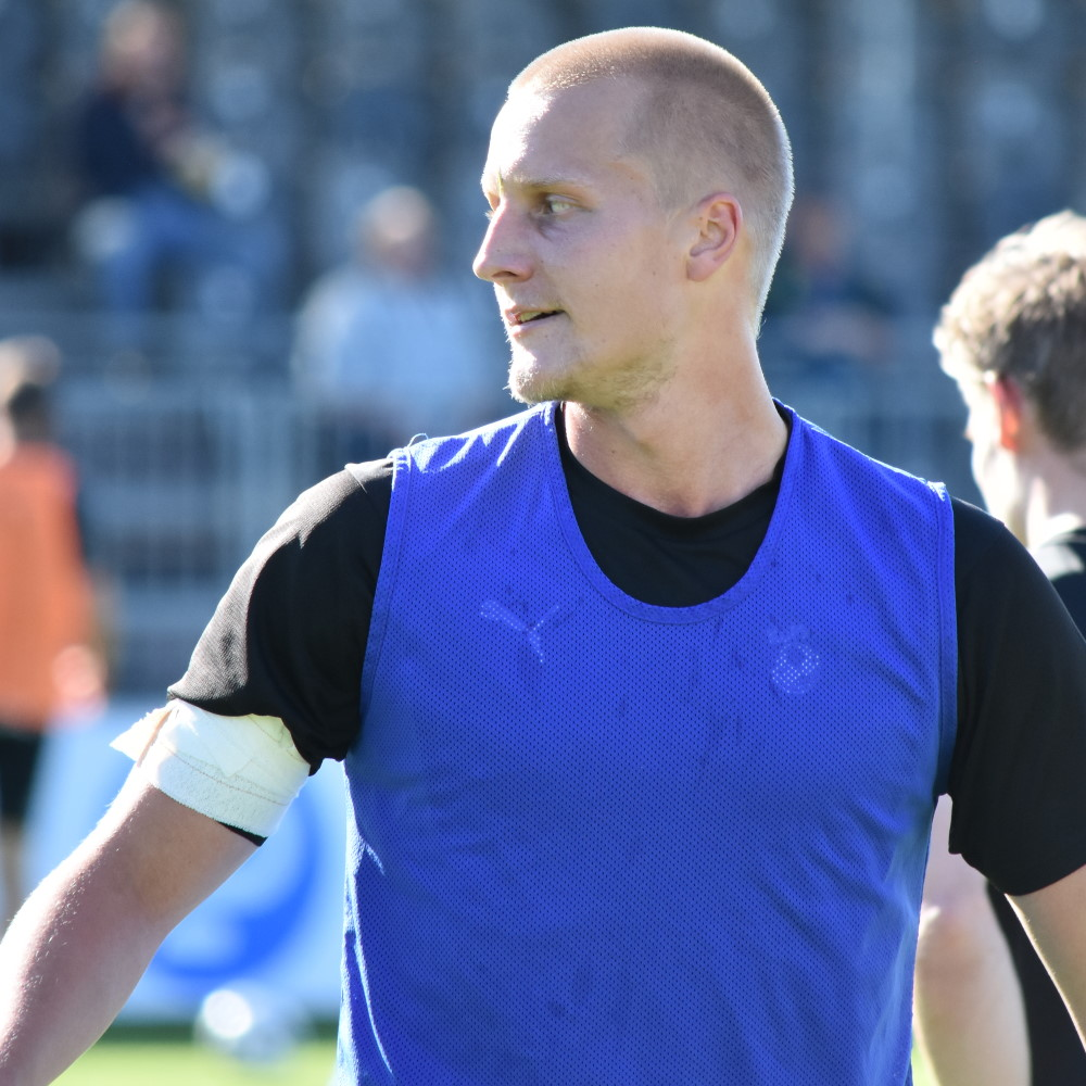 Finnish football player Juho Pirttijoki